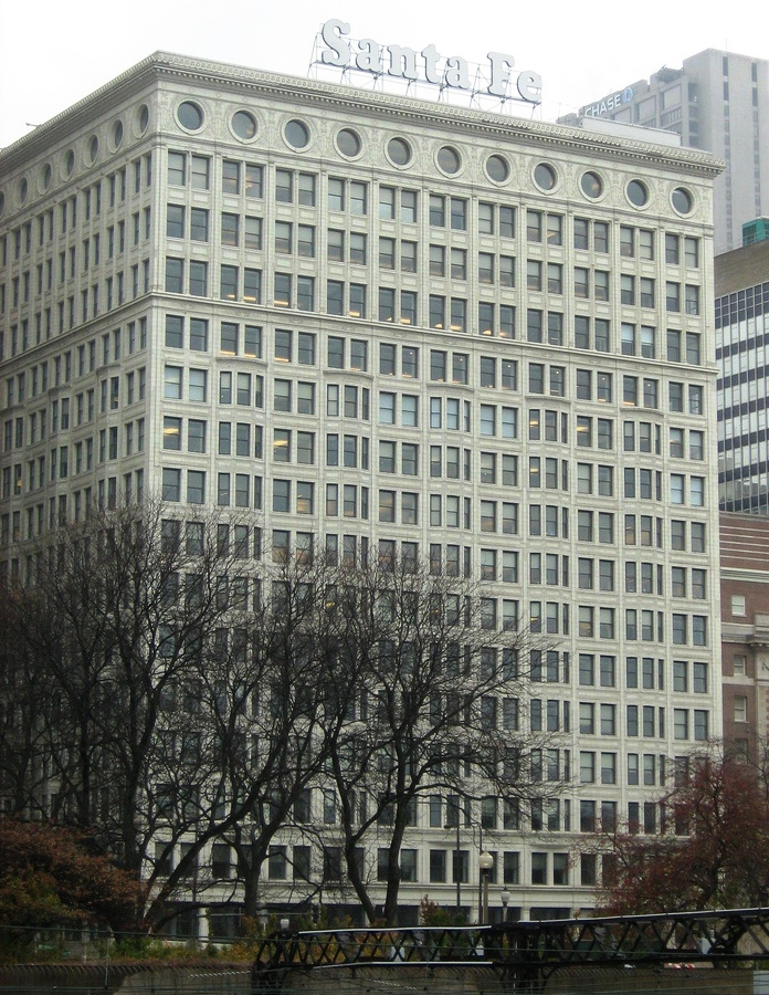 224 S Michigan Ave Chicago, IL 60604